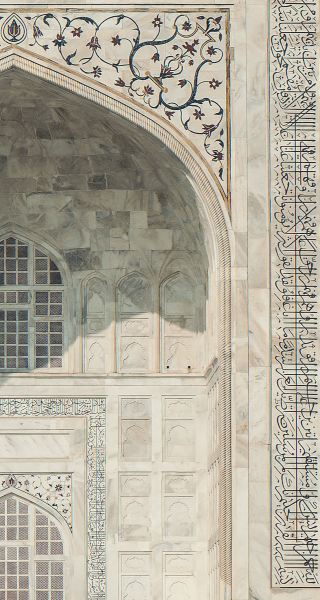 Image rendered for RGB subpixel sampling